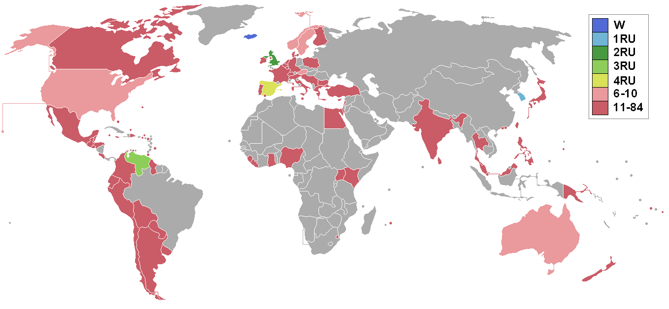 created by Joey80